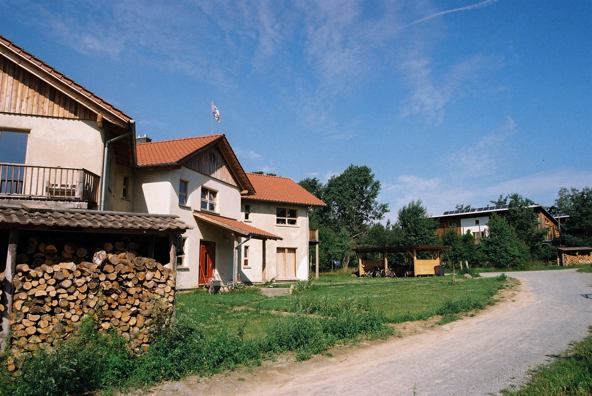 House Windrose in Sieben Linden Ecovillage